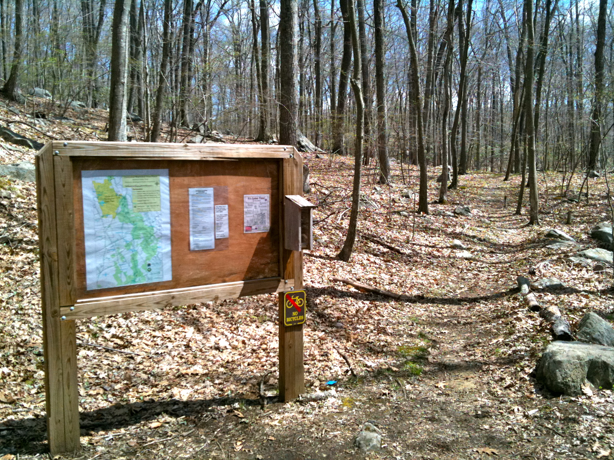 Aspetuck Valley Trail. Blue-Blazed CFPA foot path in Connecticut Centennial Watershed State Forest which connects to Huntington State Park at the northern terminus and which follows the Aspetuck River from Newtown, CT through Redding and Easton, CT. Aspetuck Valley Trail. Blue-Blazed CFPA foot path in Connecticut Centennial Watershed State Forest which connects to Huntington State Park at the northern terminus and which follows the Aspetuck River from Newtown, CT through Redding and Easton, CT.